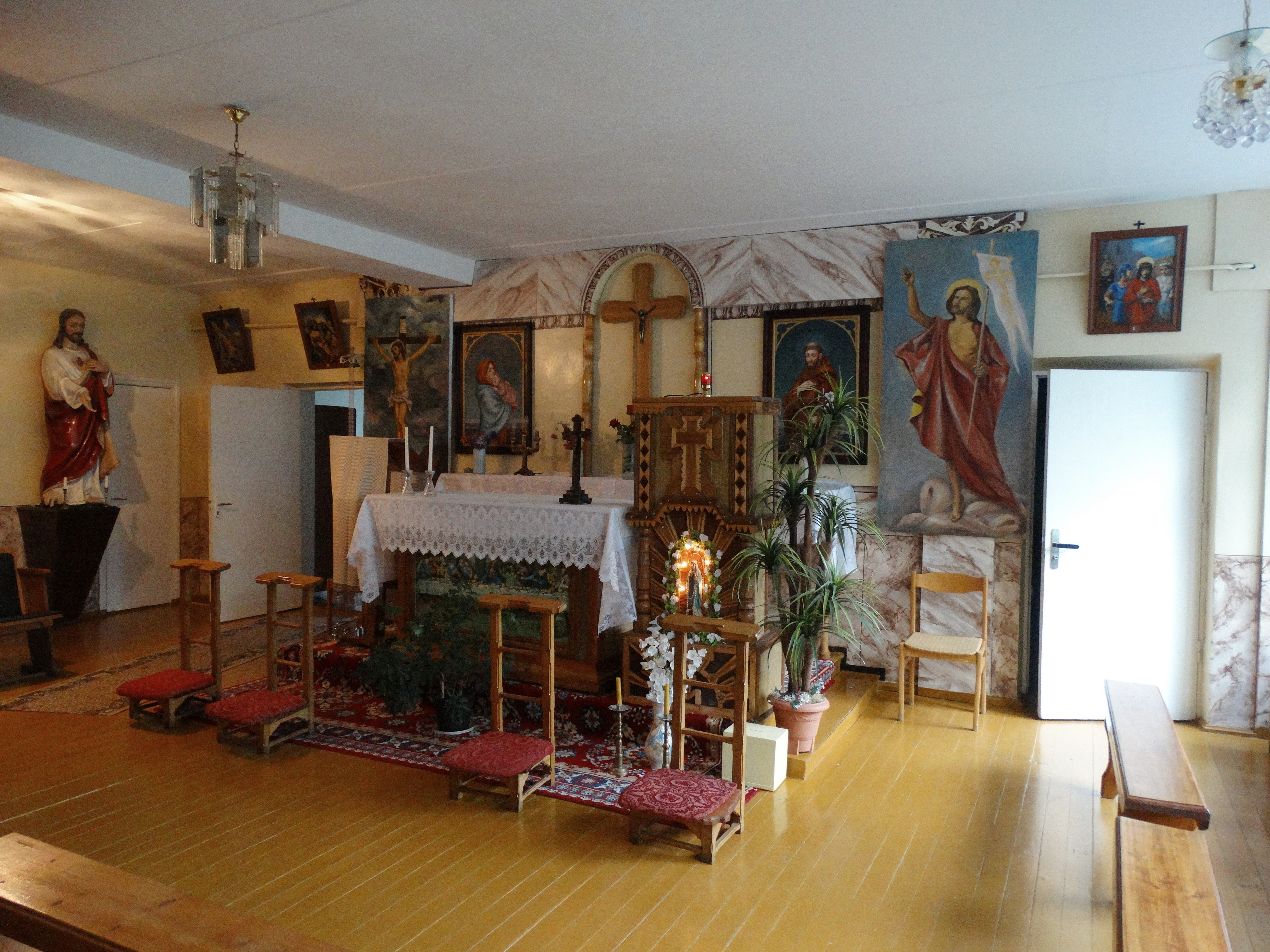 Chapel, Kraštai, Pasvalys District, Lithuania